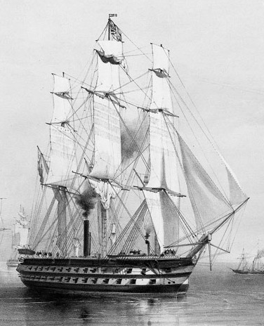 The English & French fleets in the Baltic, 1854. (Plate No.5). The fleets becalmed. Screw ships getting steam up (shows H.M.S. Princess Royal and Blenheim)